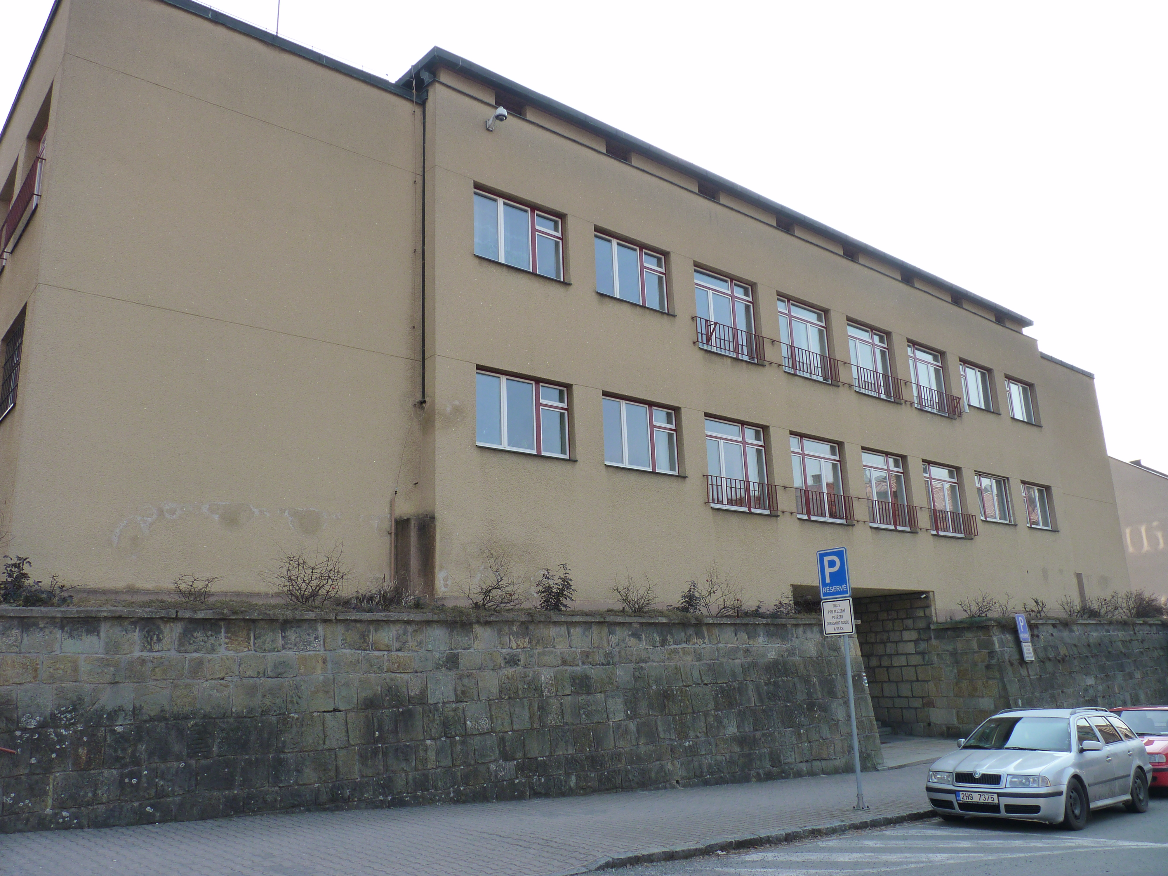 District court of Rychnov nad Kněžnou